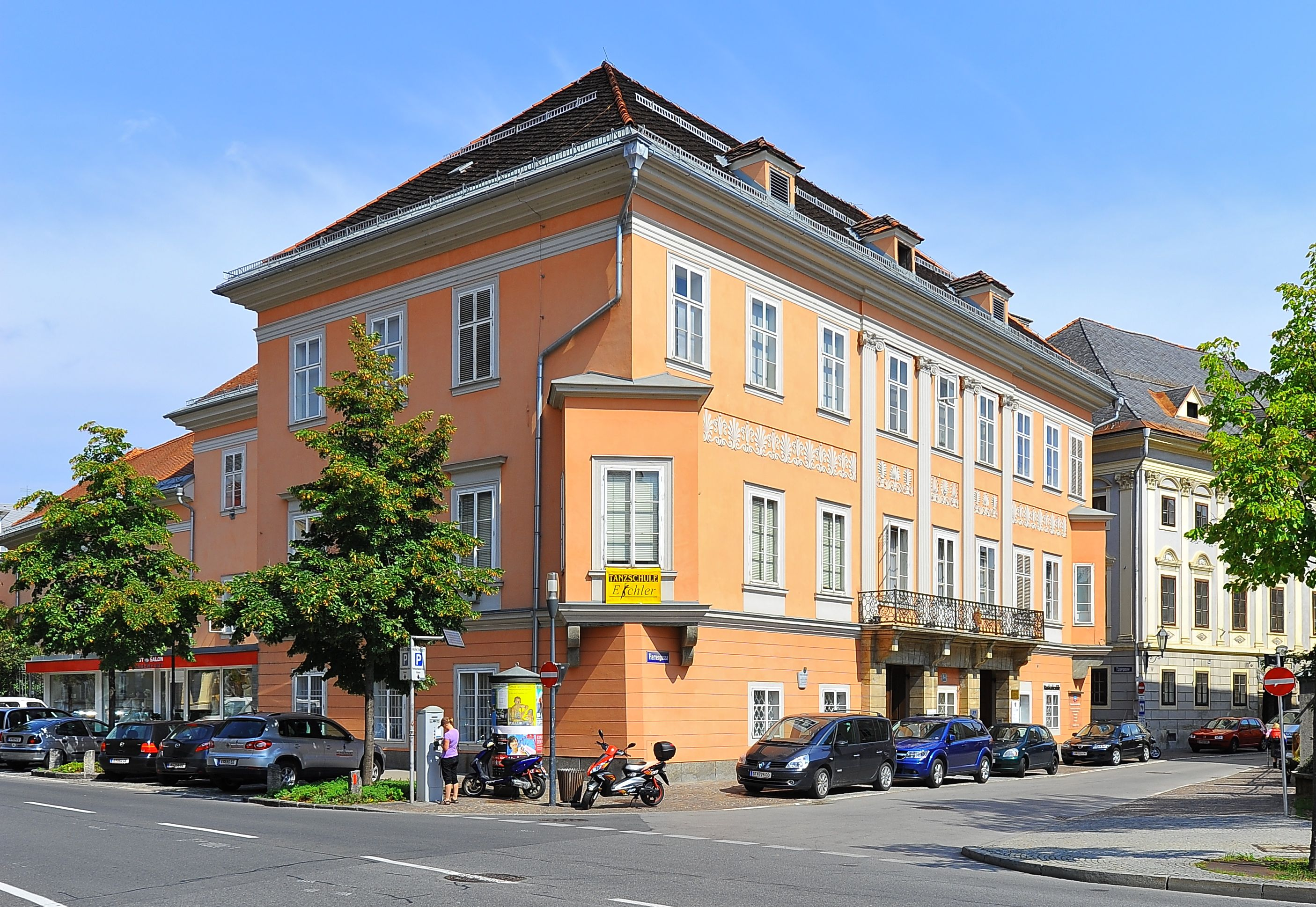 Palais Christalnig, Herrengasse #14, inner city of Klagenfurt, Carinthia, Austria, EU